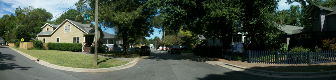 North Charlotte's Neighborhood in Mecklenburg Mill Village Houses